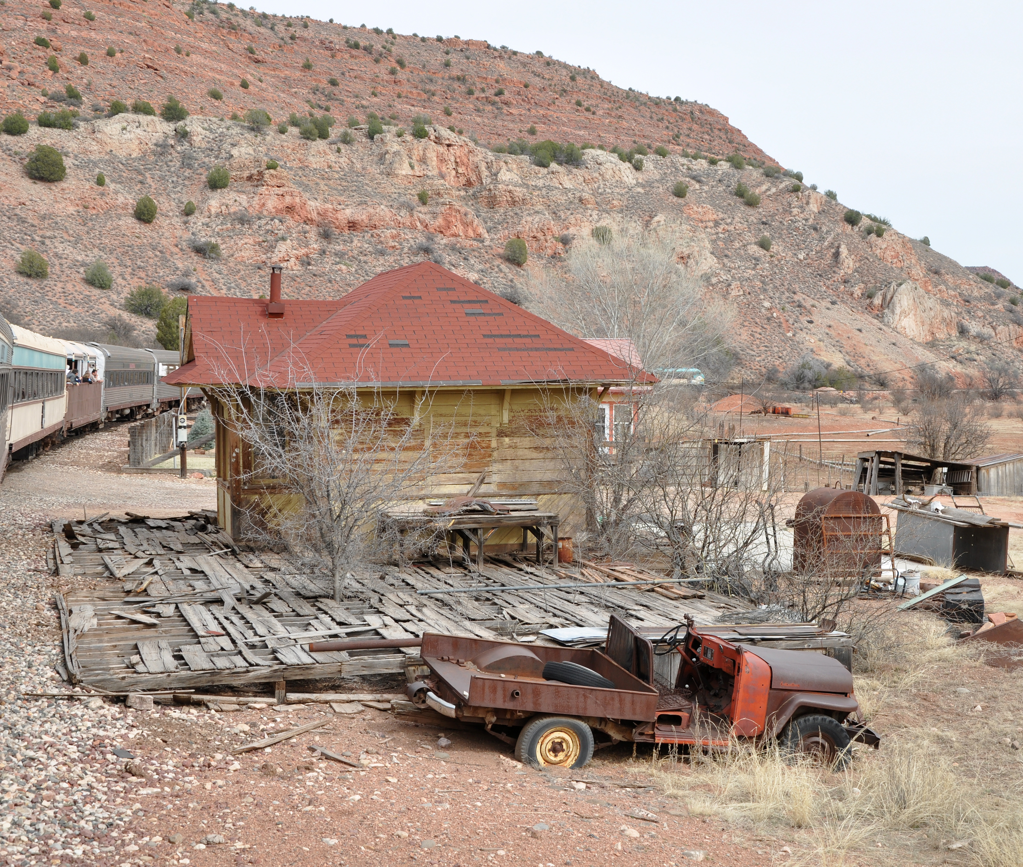 Derelict train station in Perkinsville in the U.S. state of Arizona. The Verde Canyon Railroad excursion train is departing Perkinsville on its return trip to Clarkdale. View is from an open car on the train.